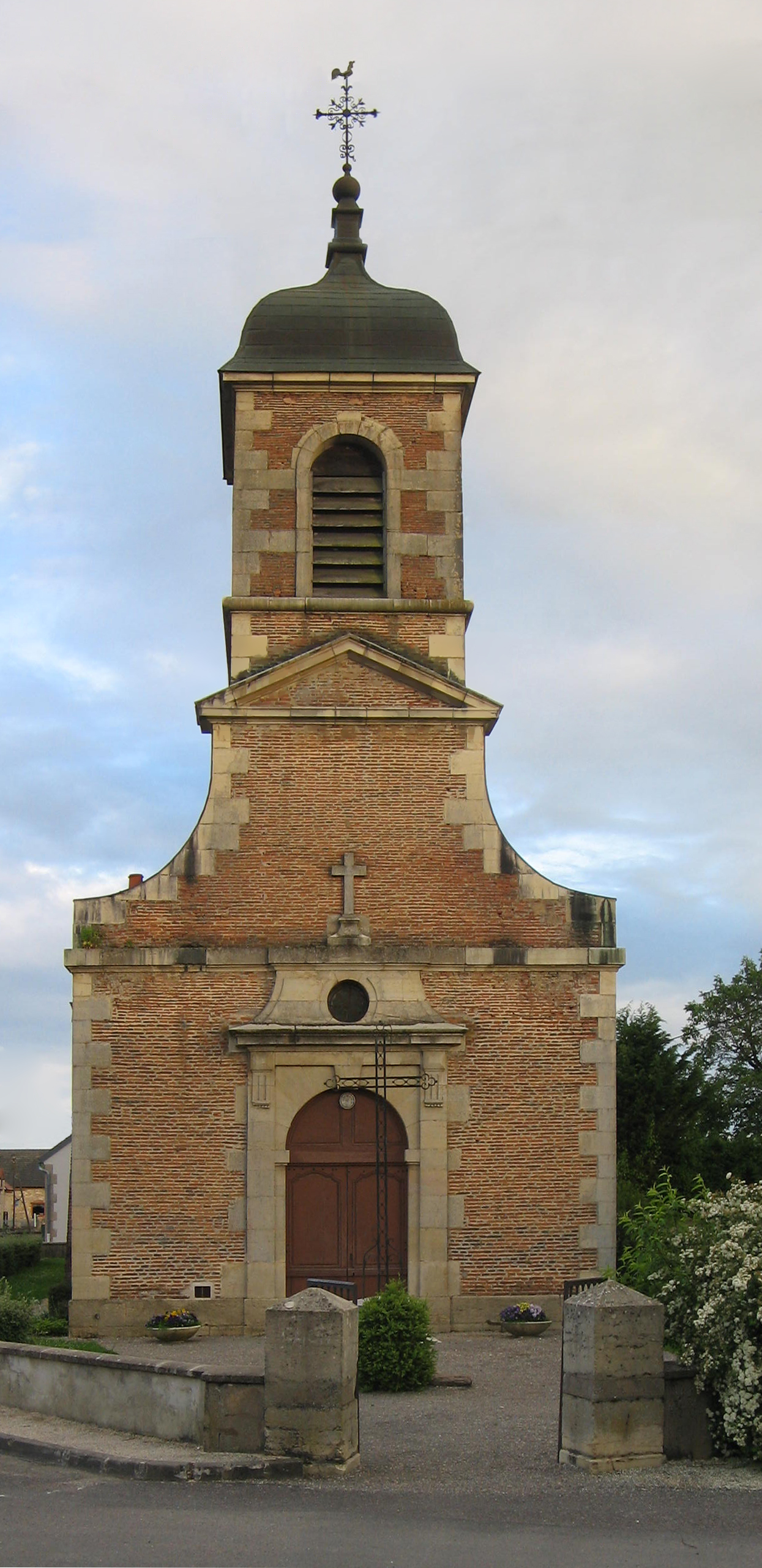 Facade and bell tower of the church in Pluvault, Côte d'Or, France.